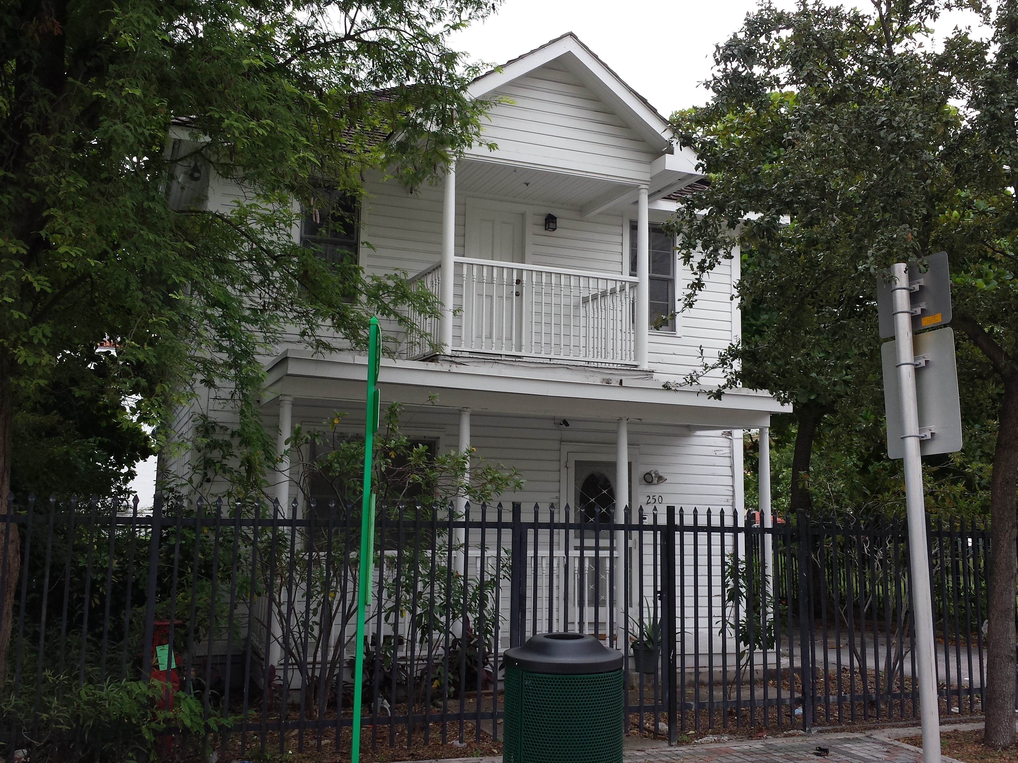 Overtown: Dana A. Dorsey House, 250 NW 9th St, Miami, FL